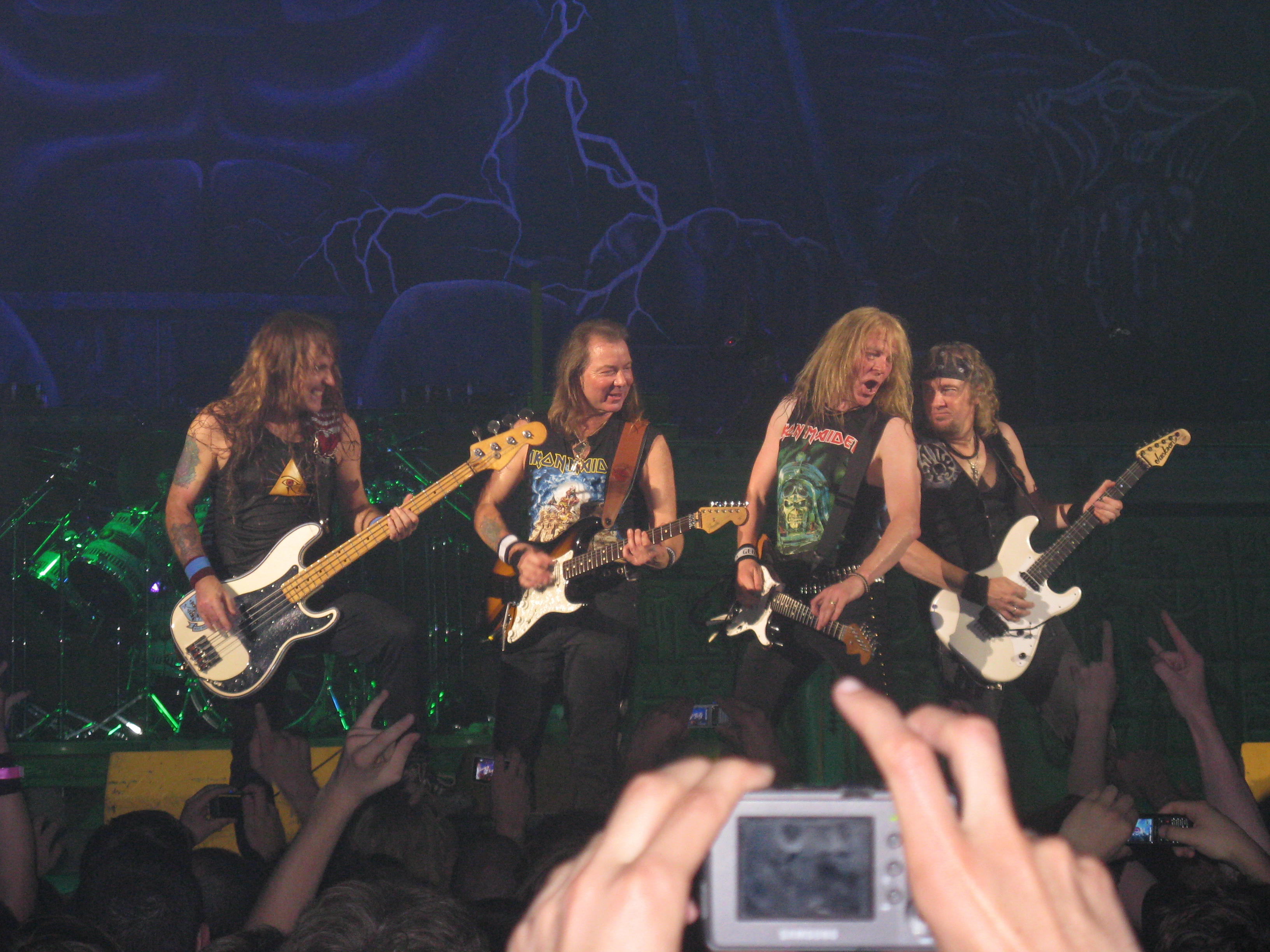 Iron Maiden in Paris (Bercy Arena) on July 1st 2008